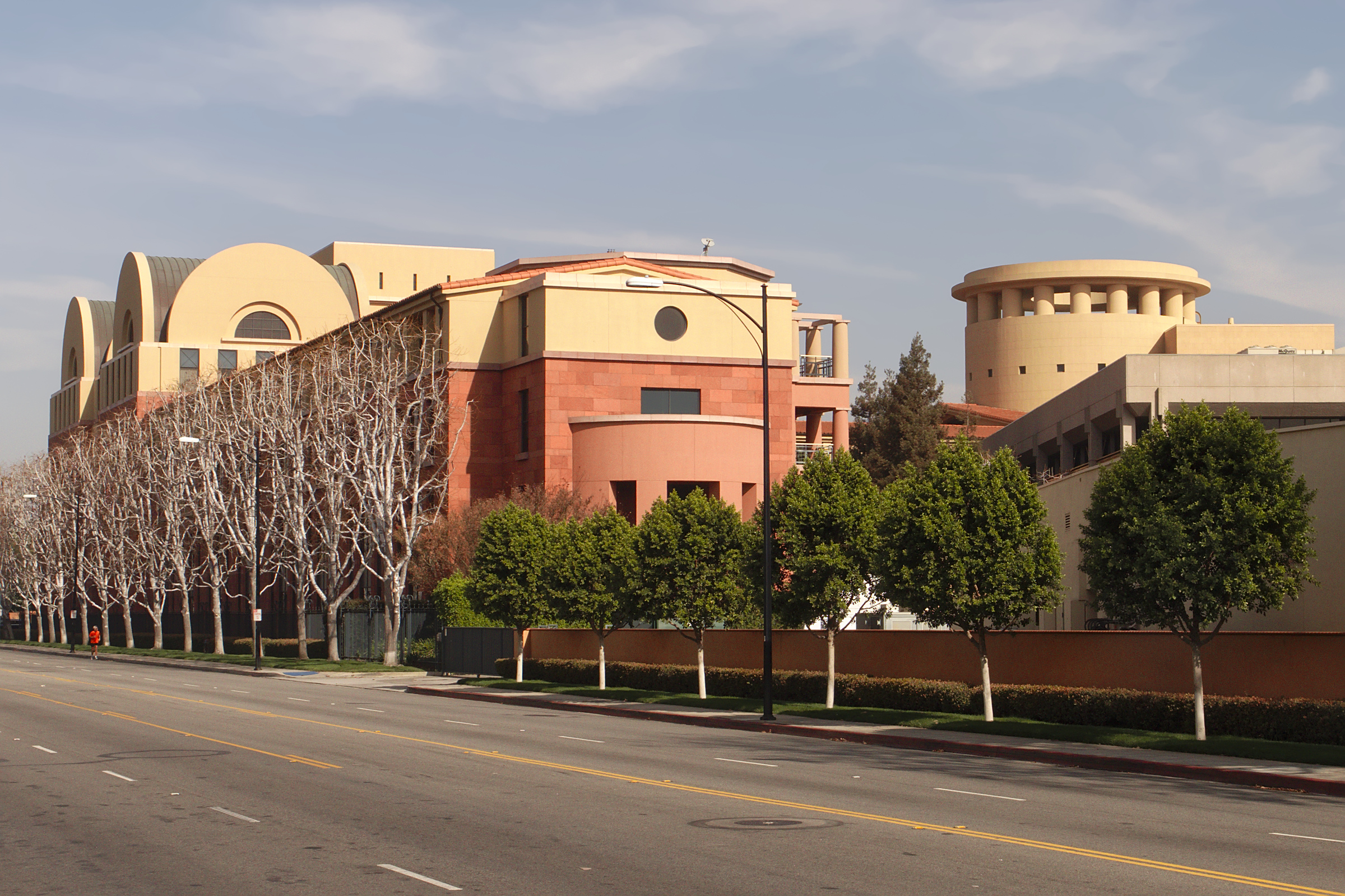 The "Team Disney" building viewed from South Buena Vista Street in Burbank, California.